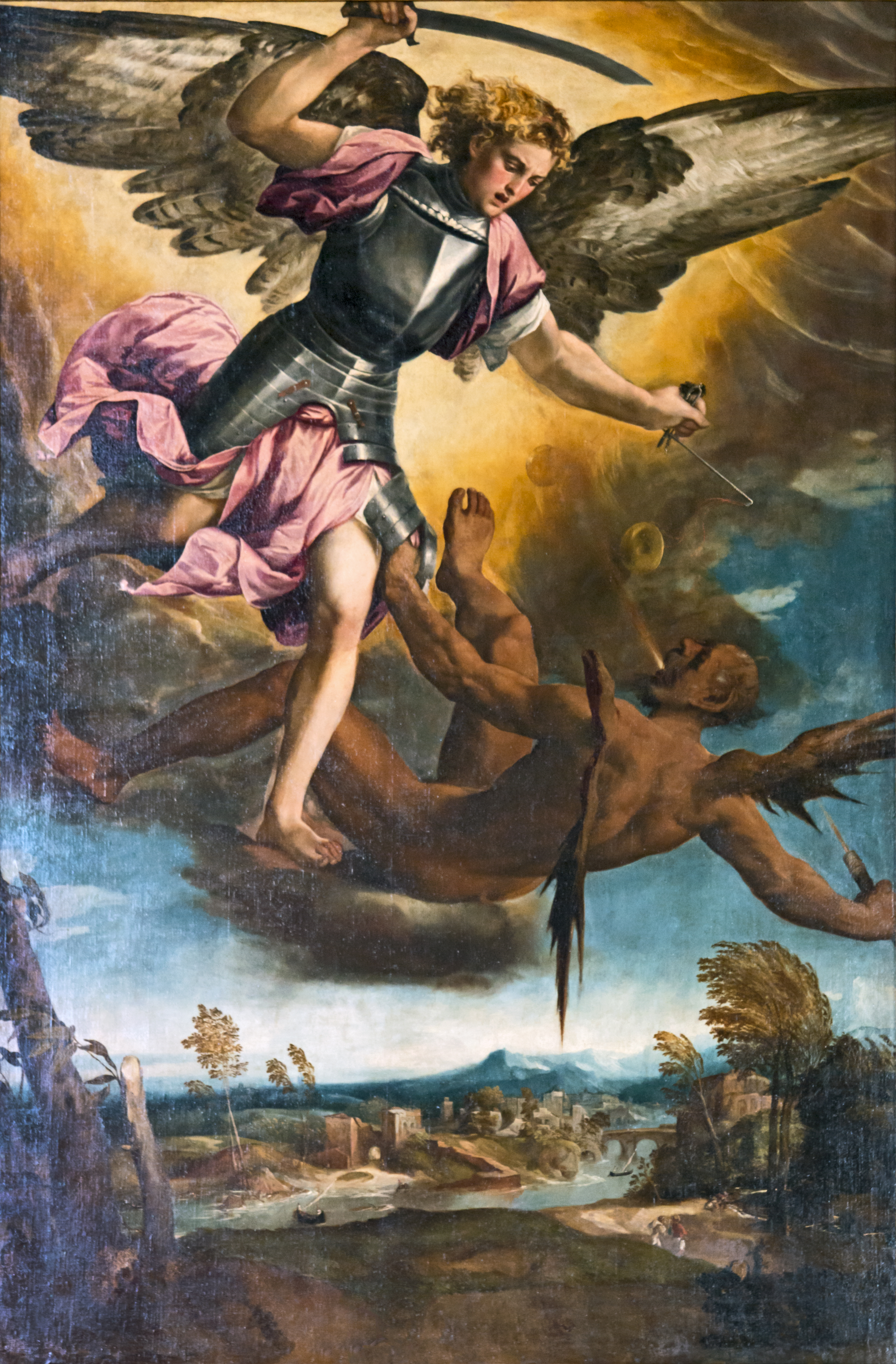 Santi Giovanni e Paolo in Venice. Chapel of our Lady of the Rosary - St Michael Vanquishing the Devil by Bonifacio de' Pitati. Oil on canvas 1530.